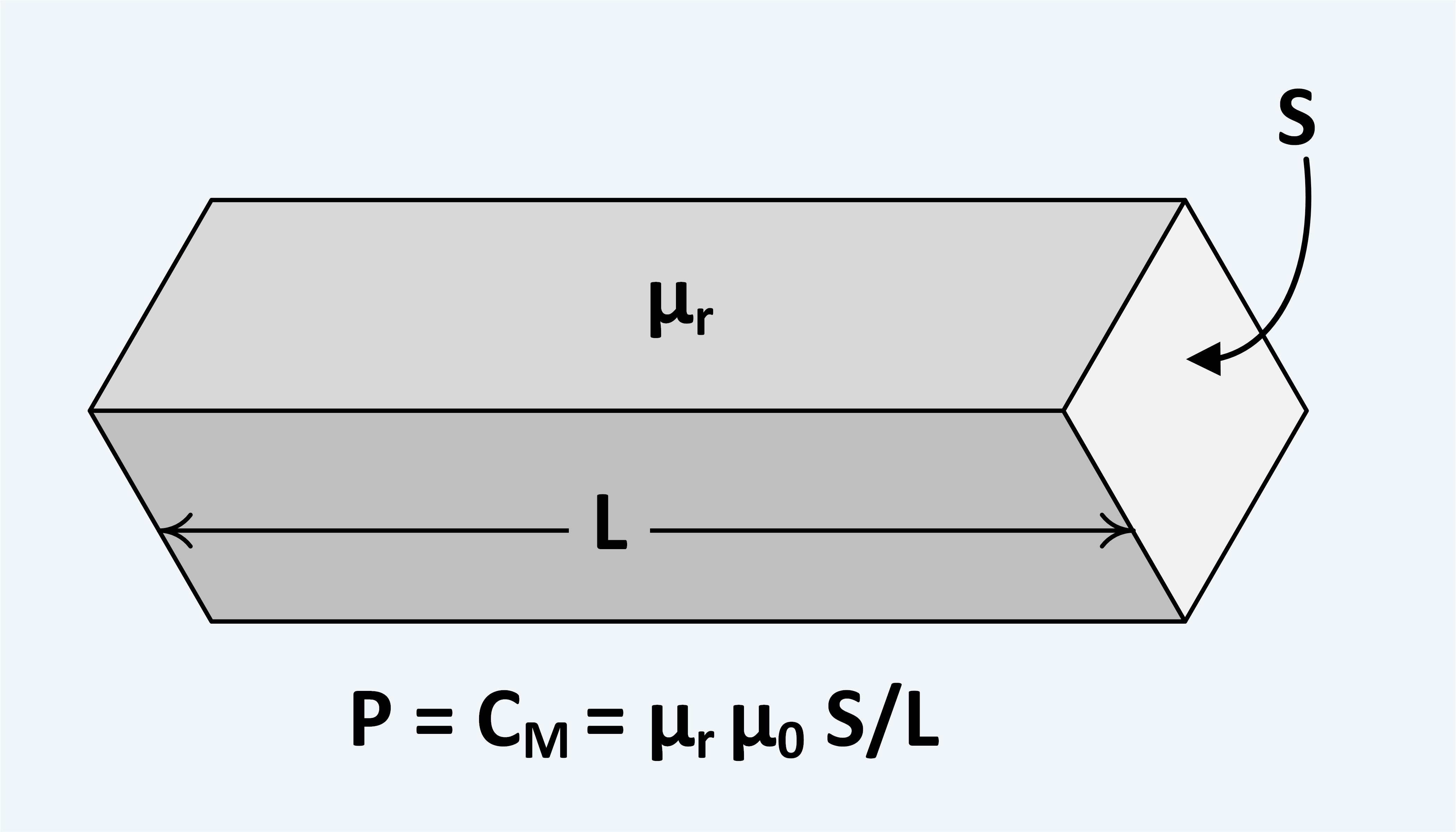 Giving the formula for the permeance of a rectangular prism.